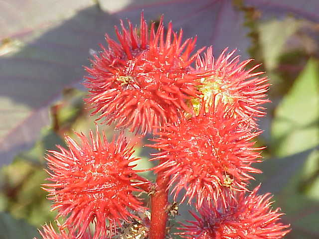 Species: Ricinus communis Family: ' Image No. 1